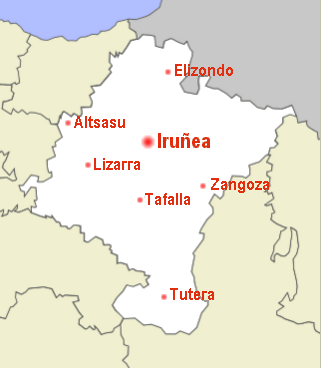 Foruzaingoaren komisarien mapa.